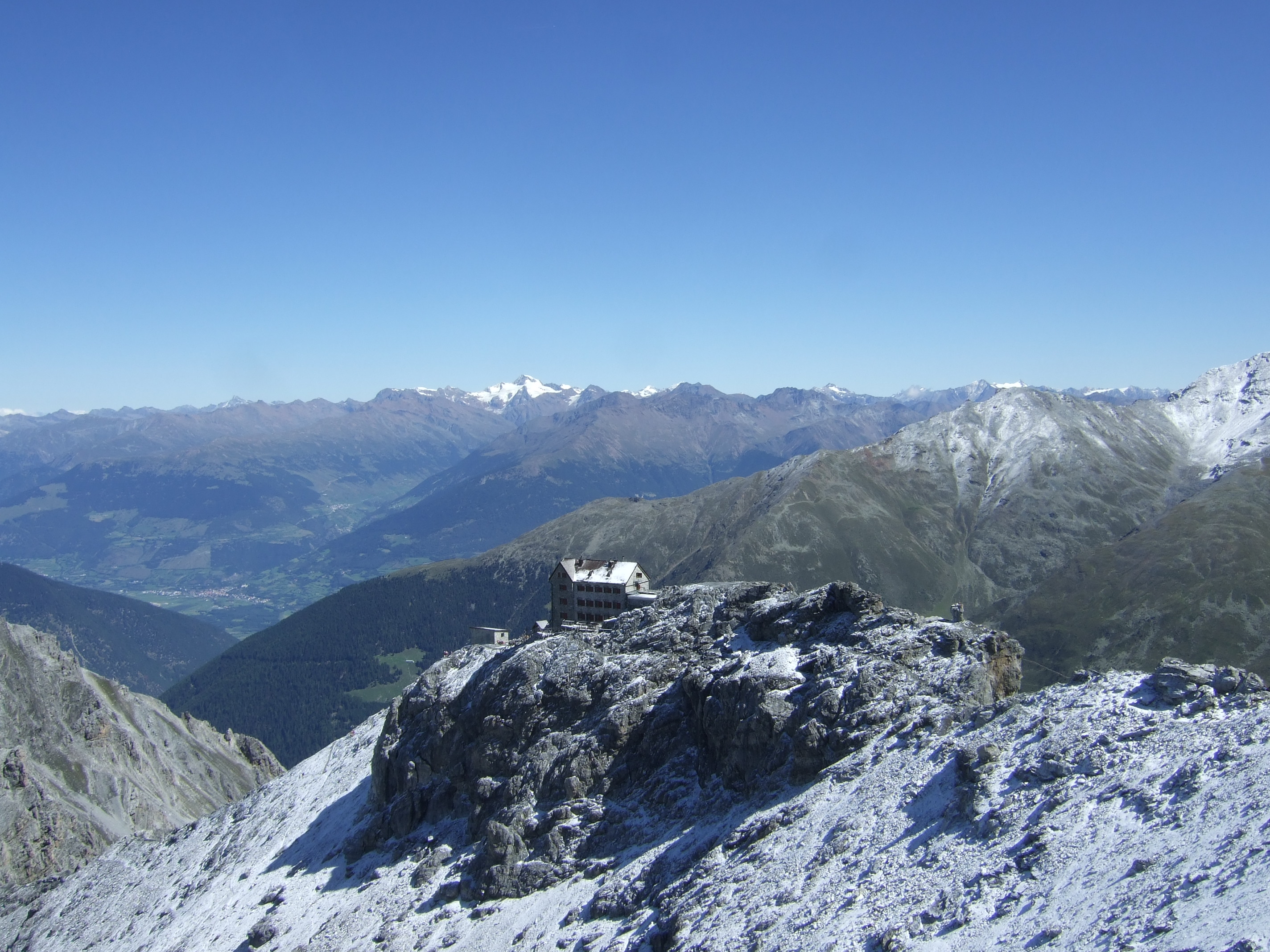 Payerhütte at the Ortler